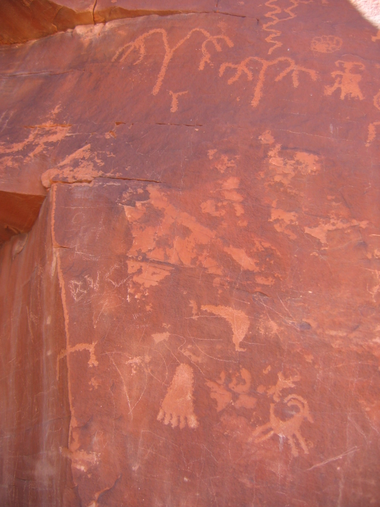 Description : Valley of Fire, Nevada, USA Author : Urban ; I took this picture on April 2006